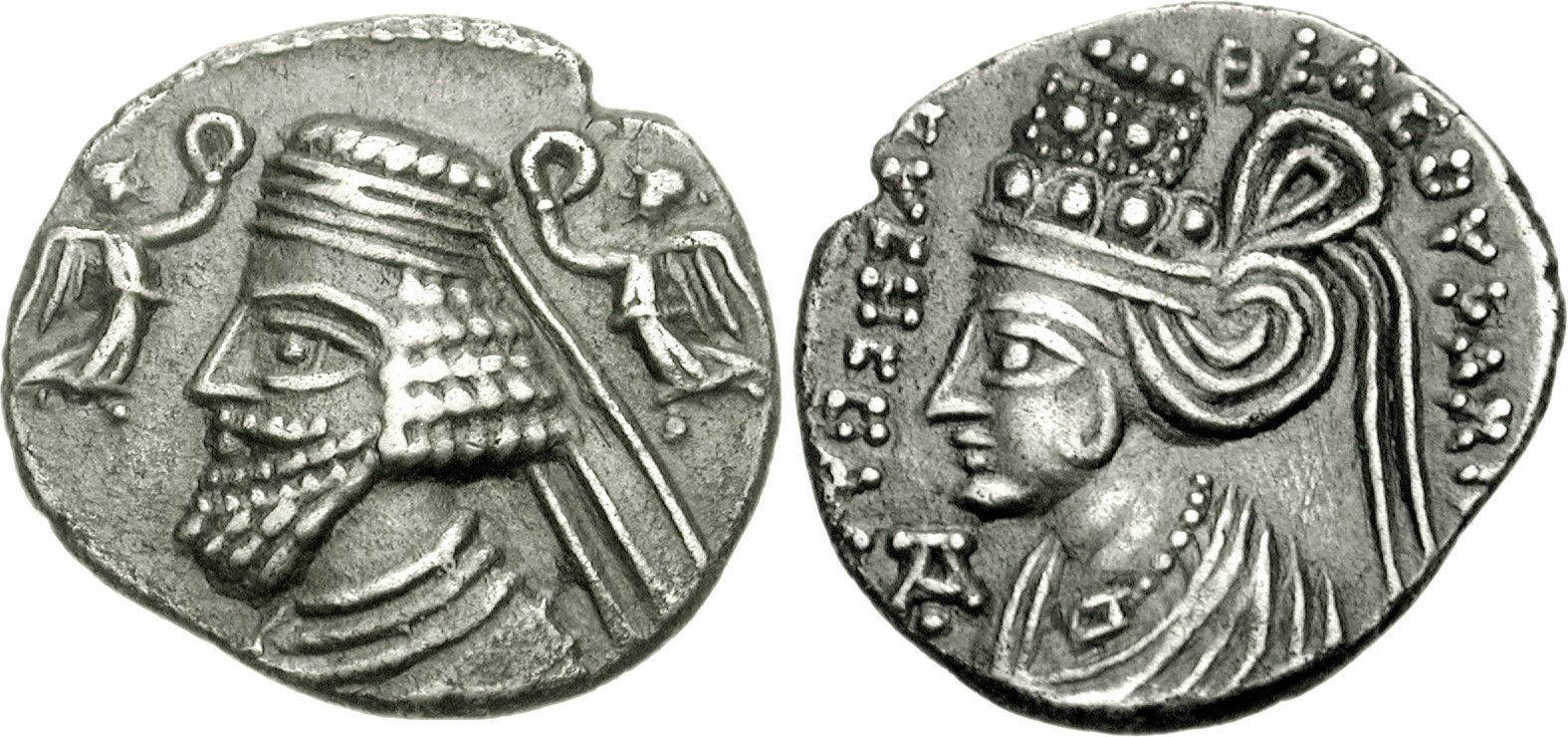 Coin of the Parthian king Phraataces and of Musa